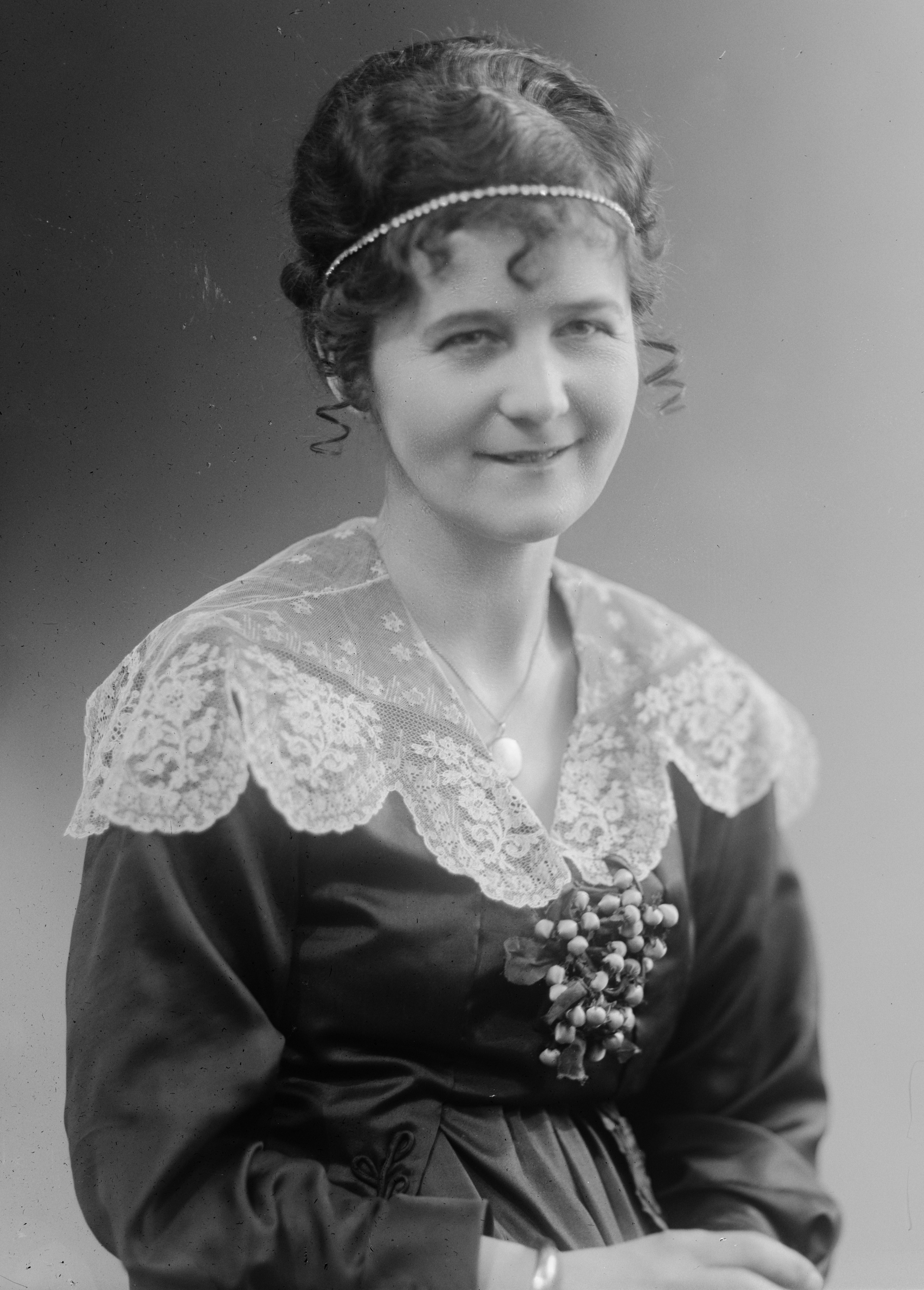 Carl Klein Atelier Universal d1999_77_34 Digitized from original negative. / Digitoitu alkuperäisnegatiivista. The Finnish Museum of Photography / Suomen valokuvataiteen museo